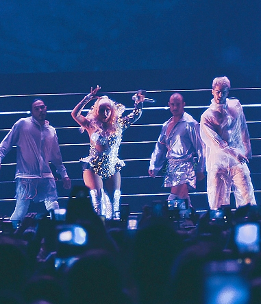 Christina Aguilera, 21.07.2019 - Christina Aguilera, Saint-Petersburg